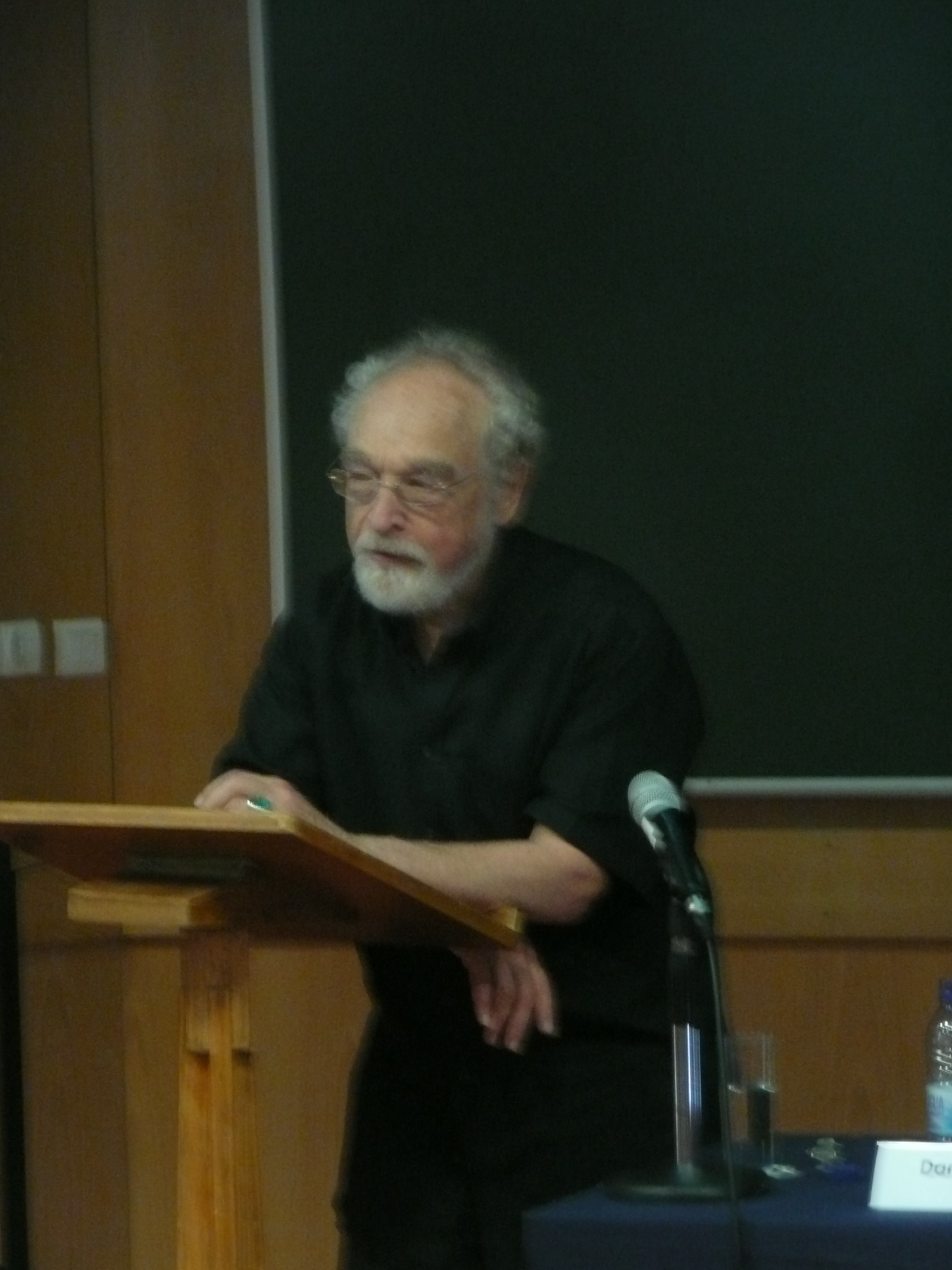 Dan Slobin, speaking at the LCM V conference in Lisboa, Portugal